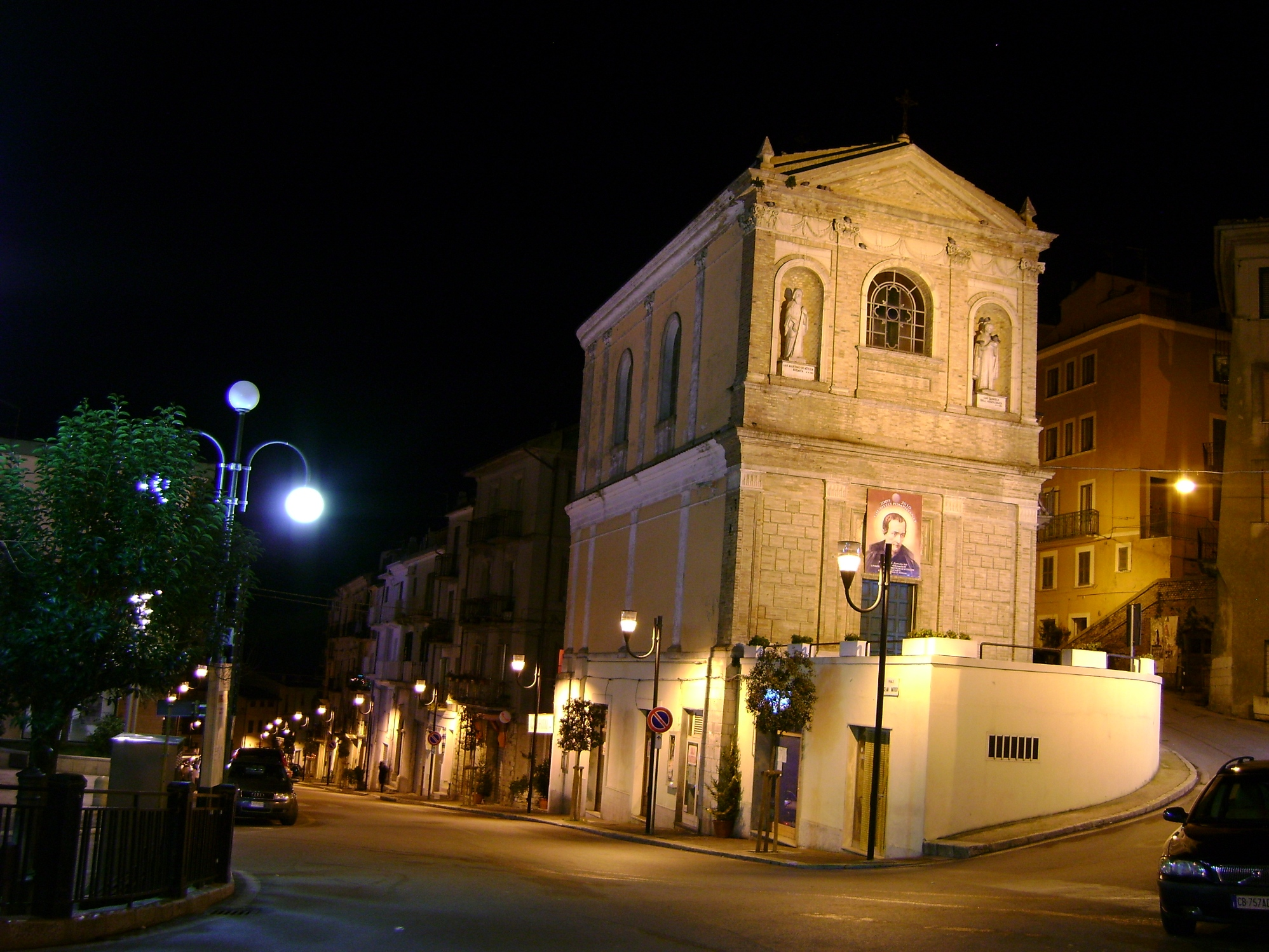 The church of Our Lady of Sorrows, Atessa, province of Chieti, Abruzzo